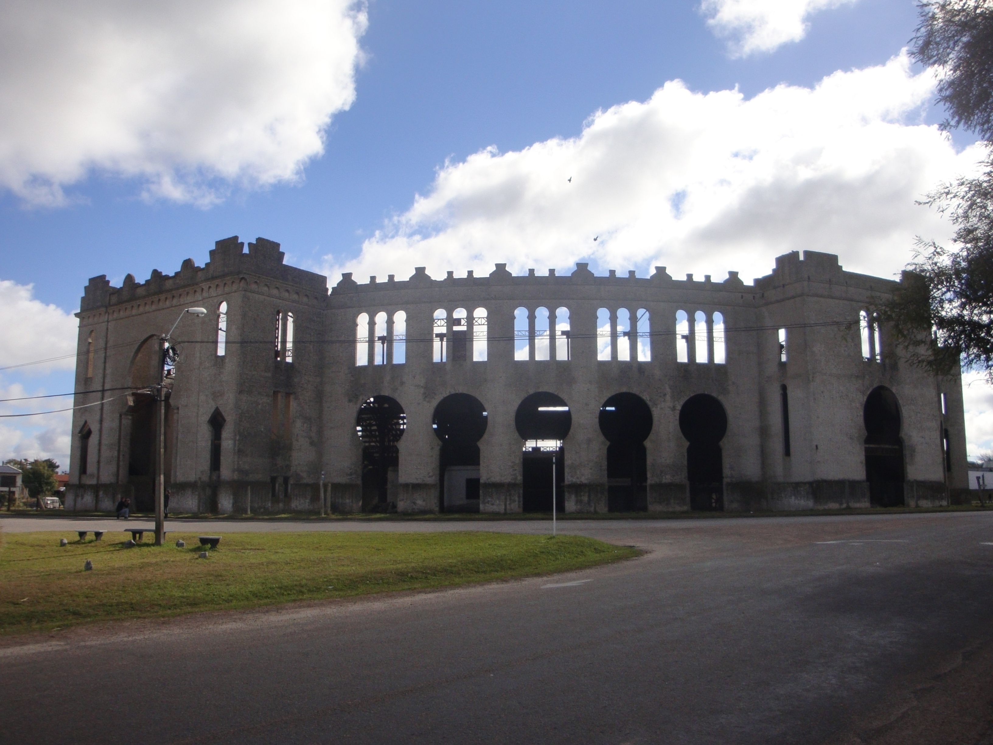 Bullring "Real de San Carlos", Colonia del Sacramento, Uruguay